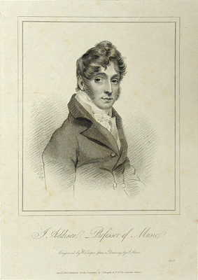 John Addison [1766 - 1844], english musician. Engraved by Robert Cooper (active in London 1795-1836) from a drawing by Joseph Slater (1782–1837. January 12 1819. Published for the Proprietor by Colnaghi & Co.: 23 Cockspur Street. Stipple engraving, 18 x 25 cm.